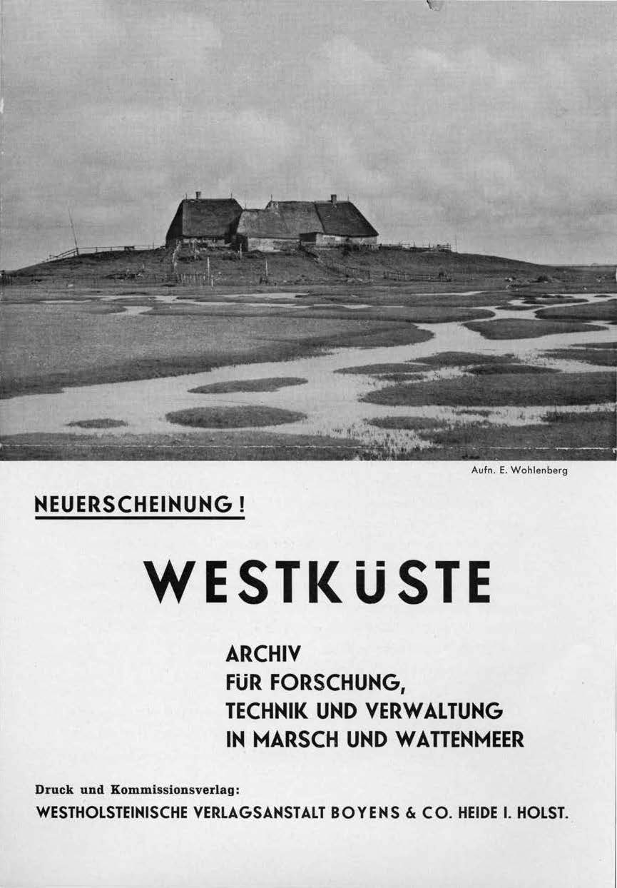 Flyer to announce the new journal Westküste in Germany, 1938